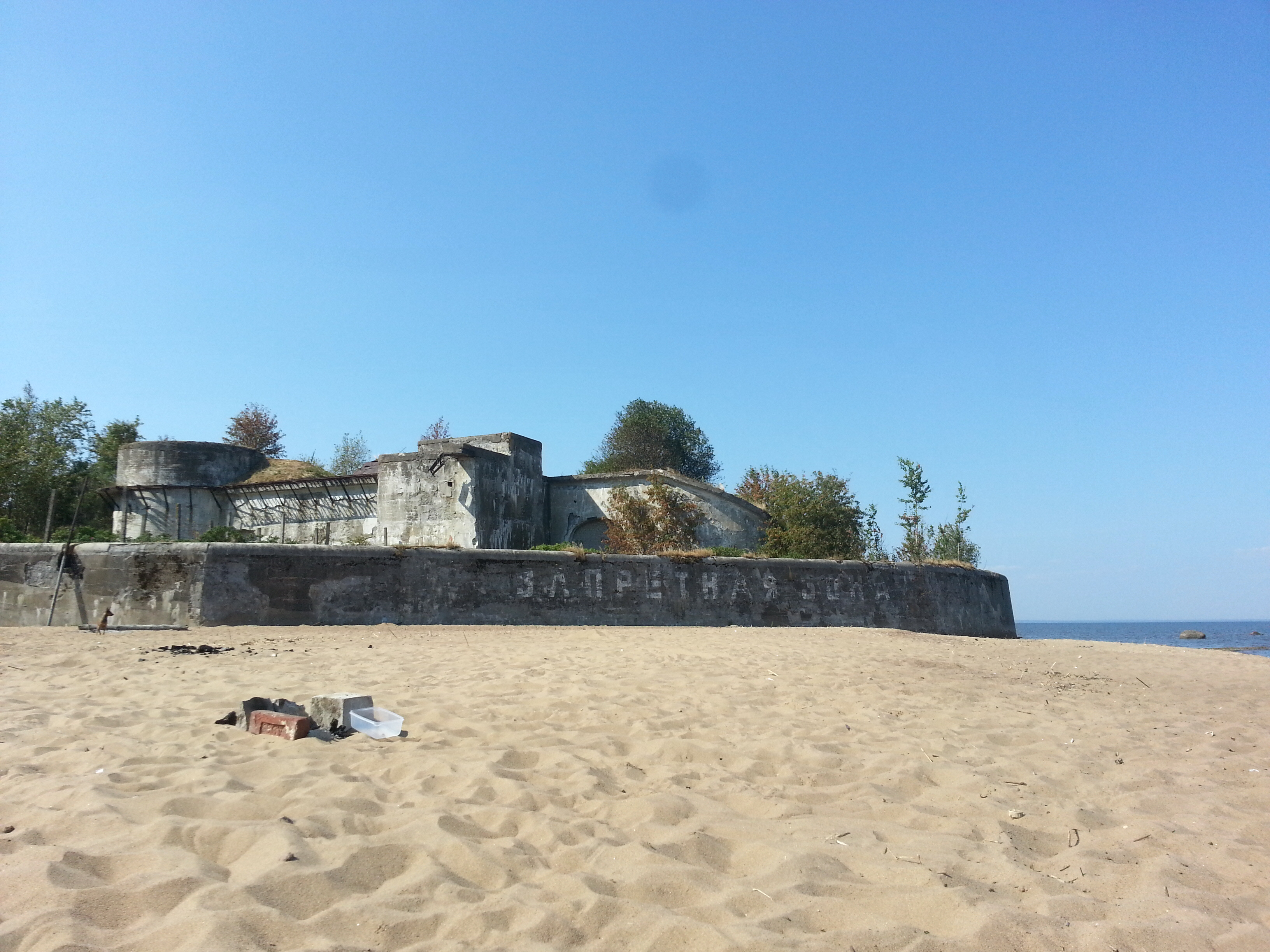 fort Rif of Kronstadt